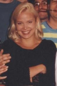 Lona Williams in 1992. Cropped from Image:Simpsons writers2.jpg